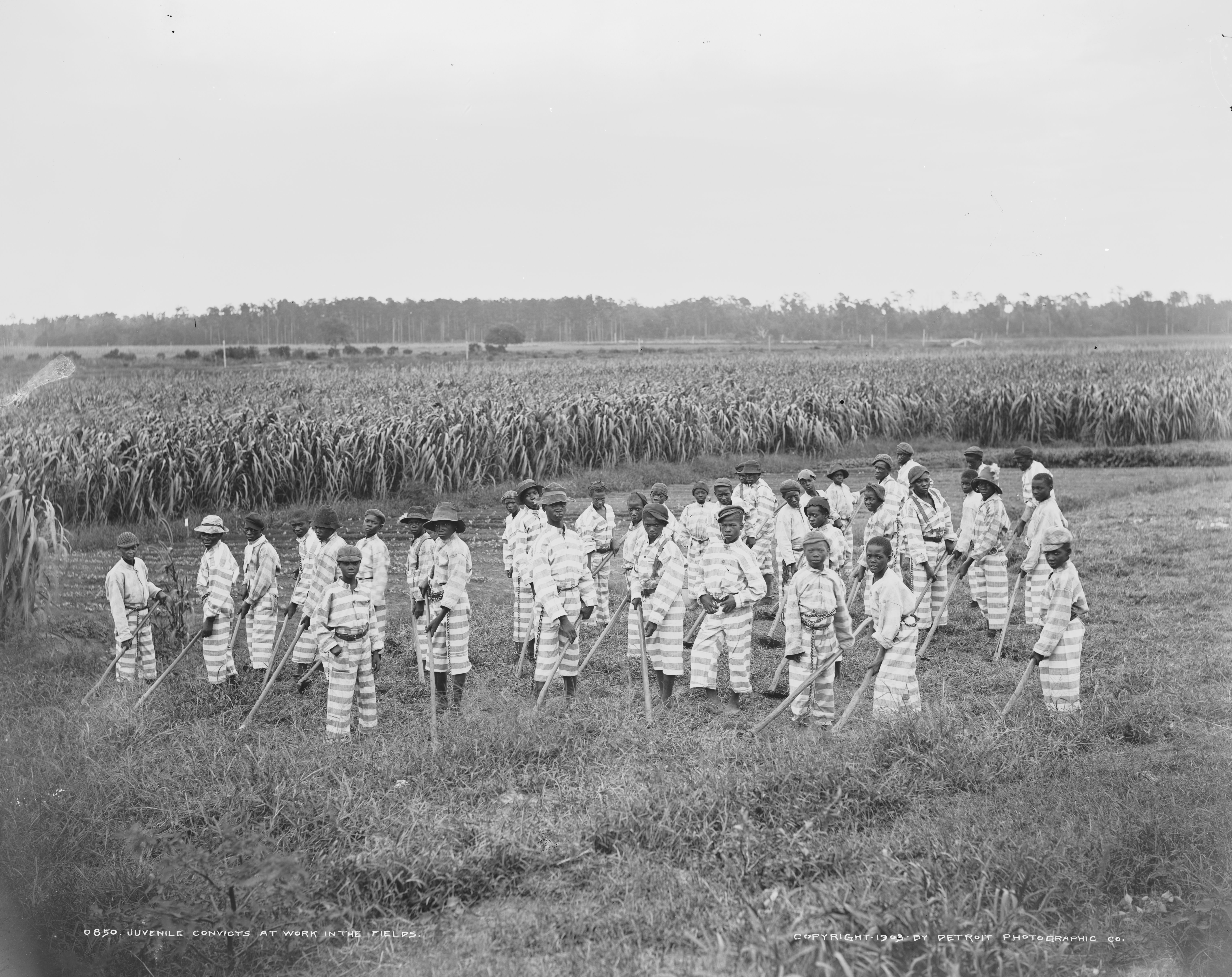 Juvenile convicts at work in the fields.